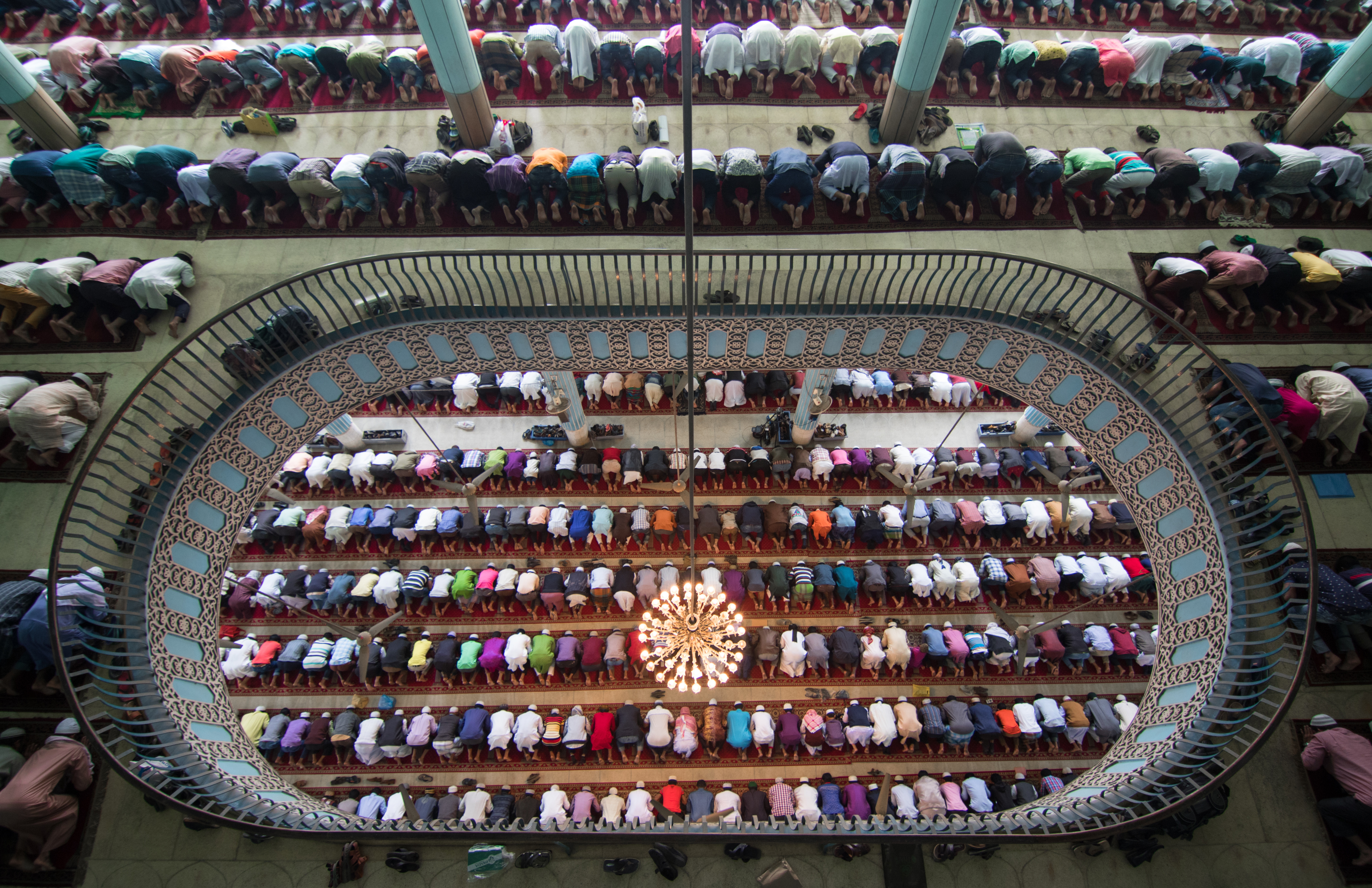 Friday Prayer at Baitul Mukarram National Mosque.